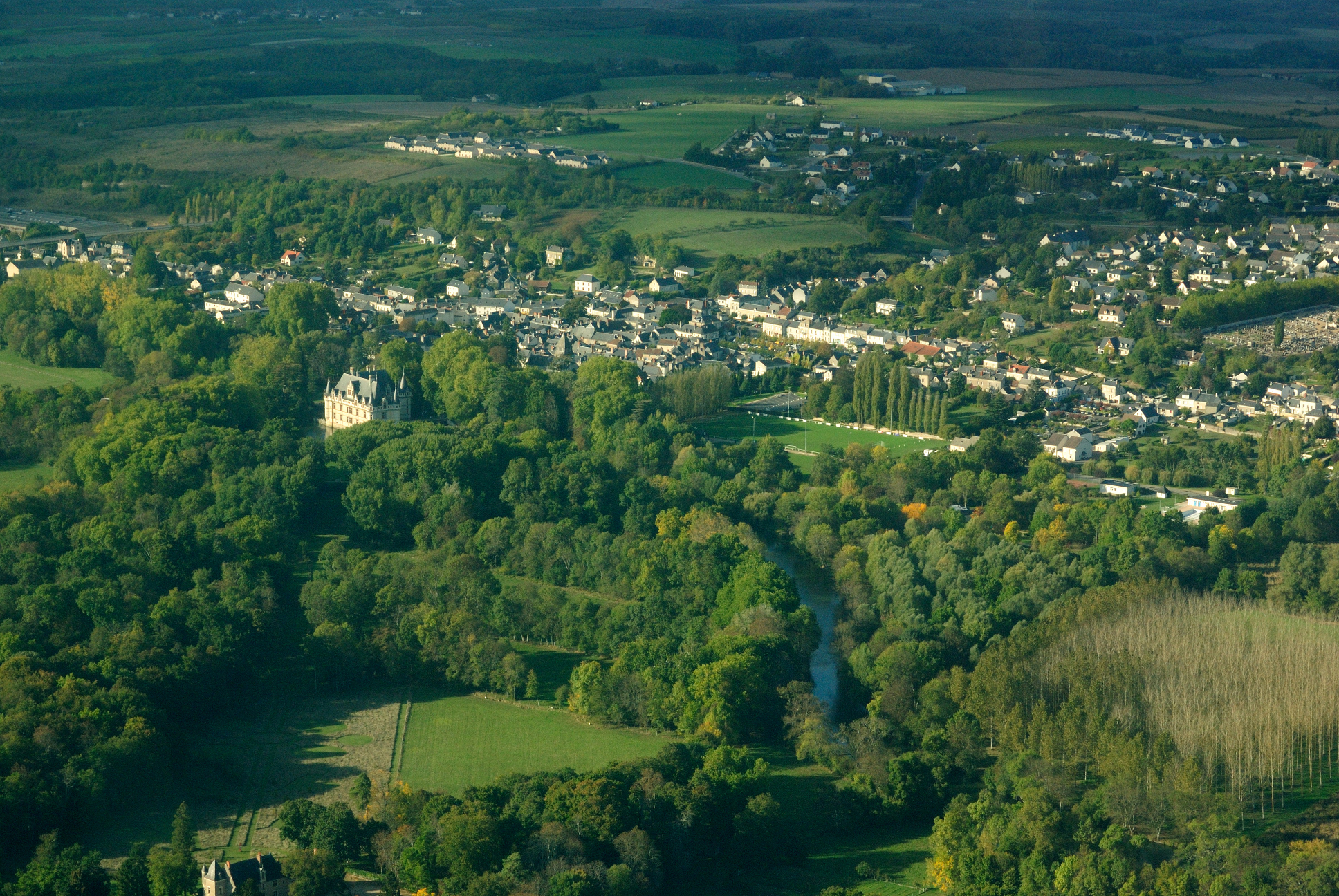 Aerial view of the village of Azay-le-Rideau (Indre-et-Loire department, France) with the castle on the left and the river Indre in the foreground. Nikon D60 f=55mm f/10 at 1/400s ISO 400. Processed using Nikon ViewNX 1.3.0 and GIMP 2.6.6.